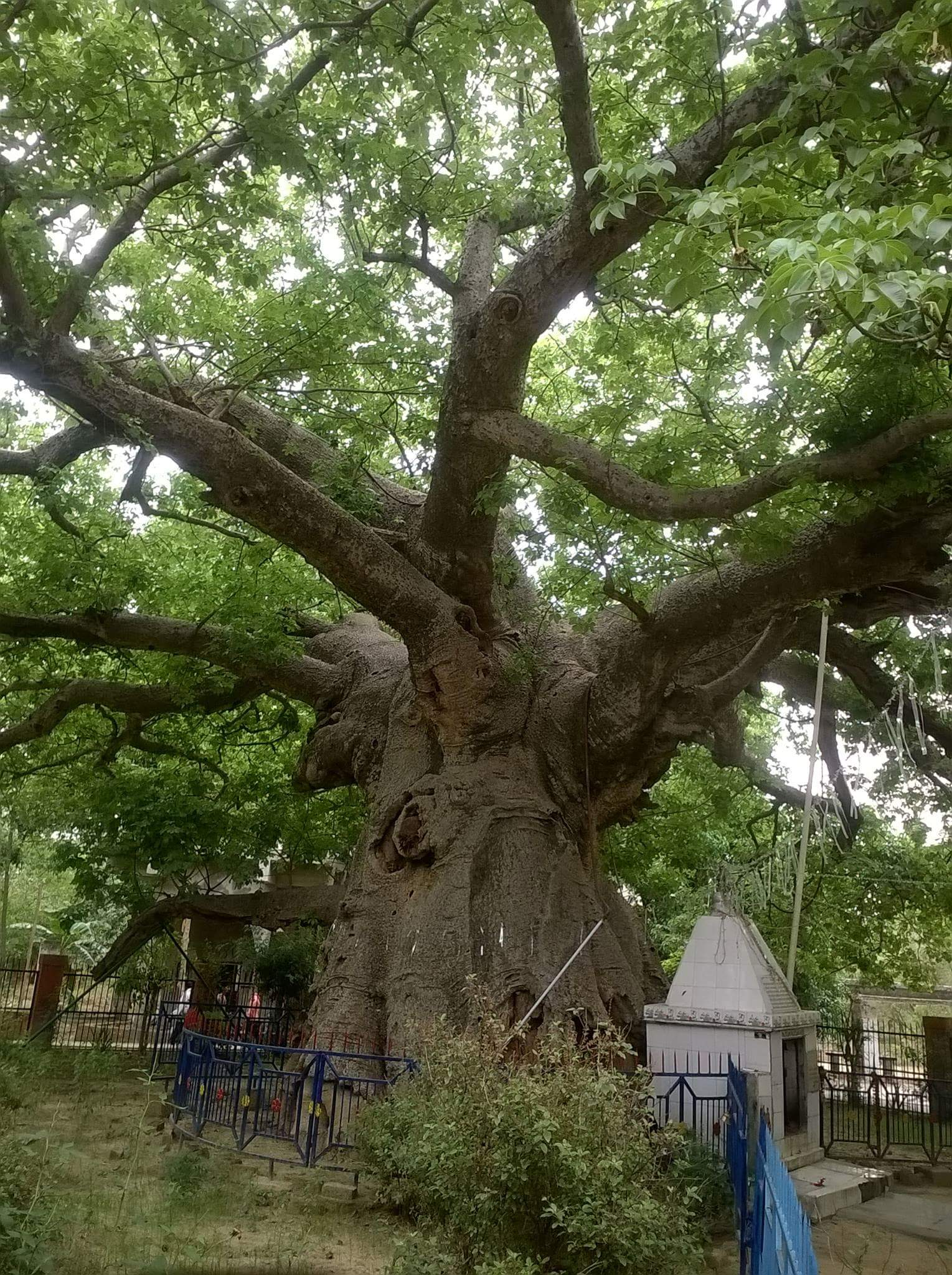 It is an image of parijat tree which is a protected tree situated in Barabanki district of Uttar Pradesh, India. By the order of local district magistrate, any kind of damage to the tree is strictly prohibited. The tree is known as baobab in modern science which is originated in Sub-sahara Africa and hence it's presence in the fertile land of India makes it rare. Also the age of the tree is still not determined, which makes it quite possible that the tree may have been planted by someone who used to travel between India and Africa. The tree needs international attention of scientists to find out more about it. The tree is also known as 'the tree from paradise' due to its mythological significance. All other information is already mentioned in the wikipedia page related to the tree at